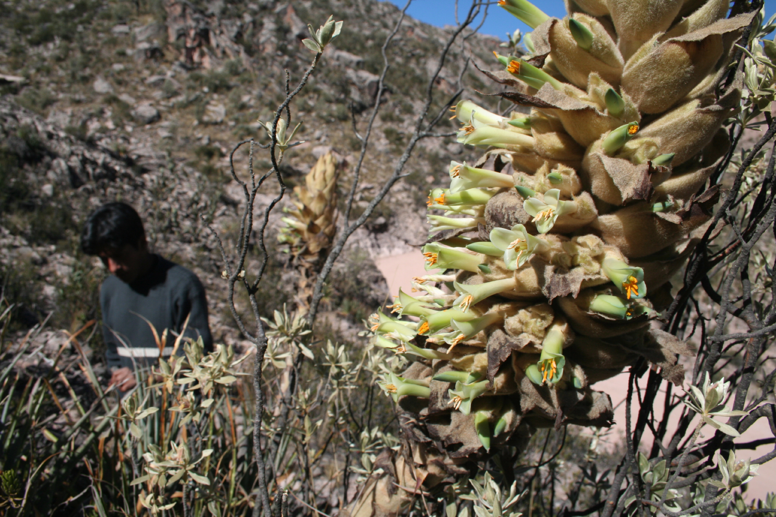 Cool giant bromeliad in the hills outside Sucre, on the Maragua crater road. Ariel Liully Aguilar in the background.